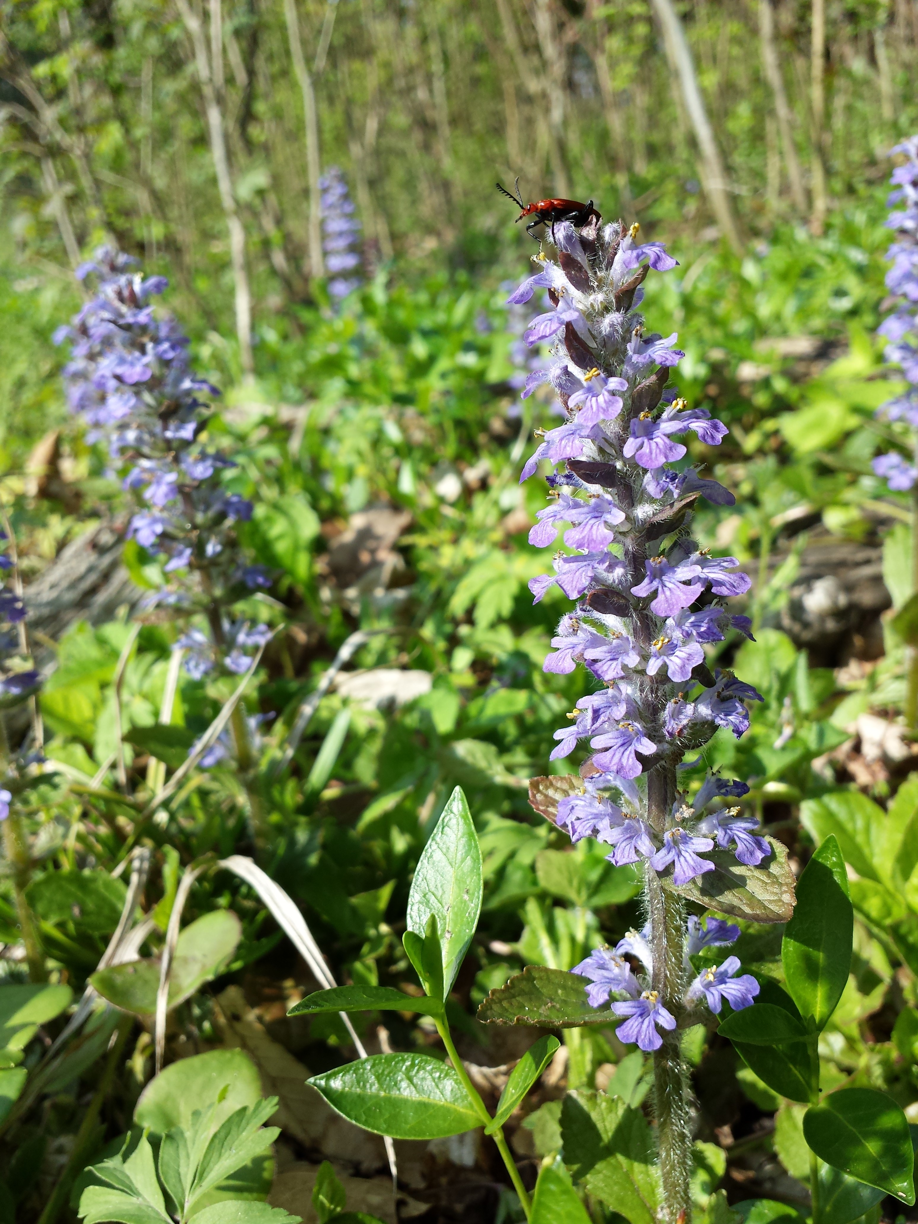 Florescence Taxon: Ajuga reptans (sensu Fischer et al. EfÖLS 2008 ISBN 978-3-85474-187-9) Location: Rohrwald, district Korneuburg, Lower Austria - ca. 250 m a.s.l. Habitat: deciduous forest